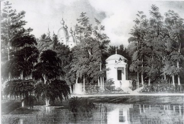 Saint Petersburg (Russia), Strelna, Coastal Monastery of St. Sergius